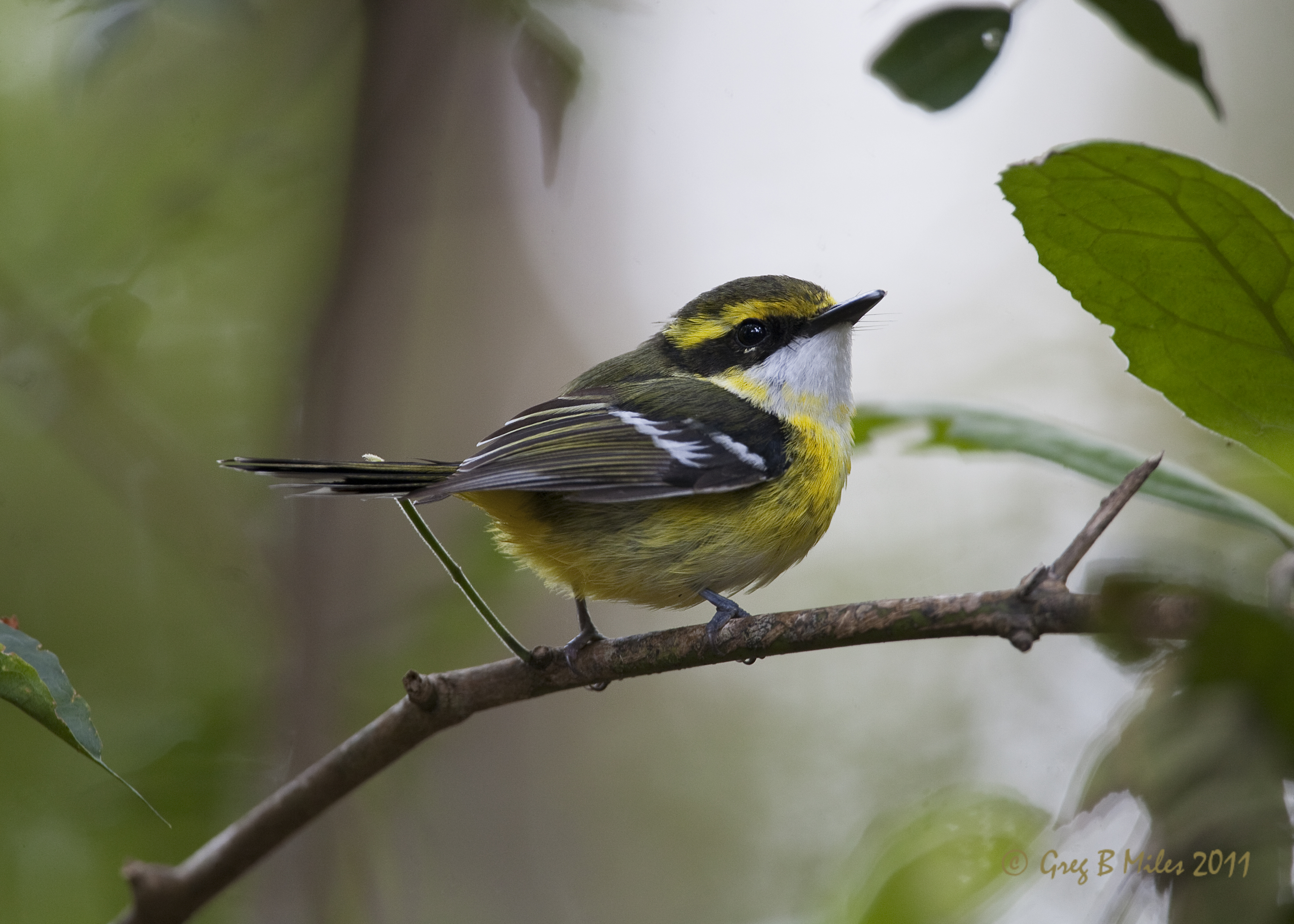 This shot makes up for the poor one that I got of this species the last time we were in it's domain. It is found in the tropical forests of North Queensland and I couldn't believe my good fortune when it eyeballed me and stayed long enough for a few shots! This is another species that is also found in Papua New Guinea.